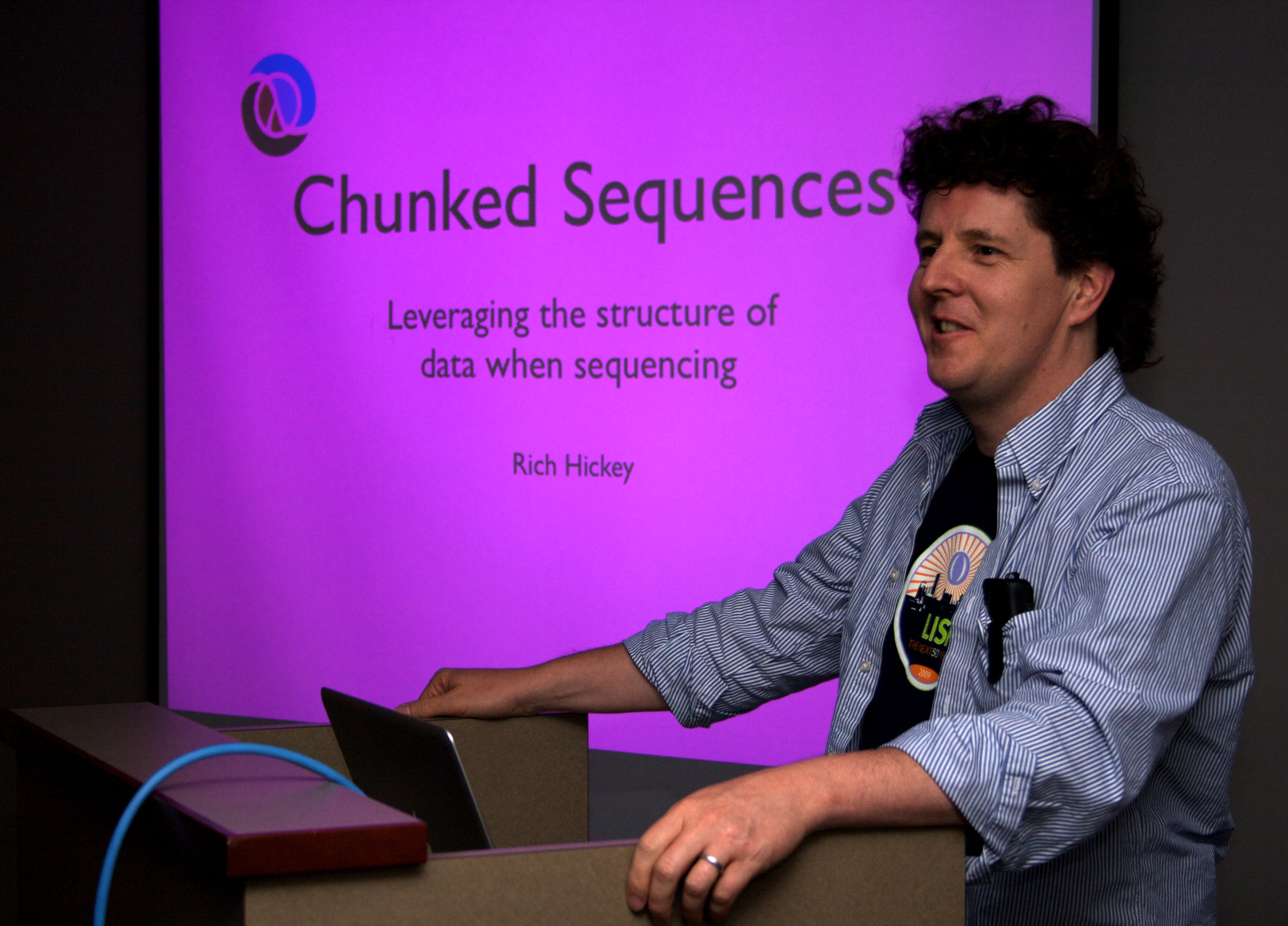 Rich Hickey – the inventor of the Clojure programming language